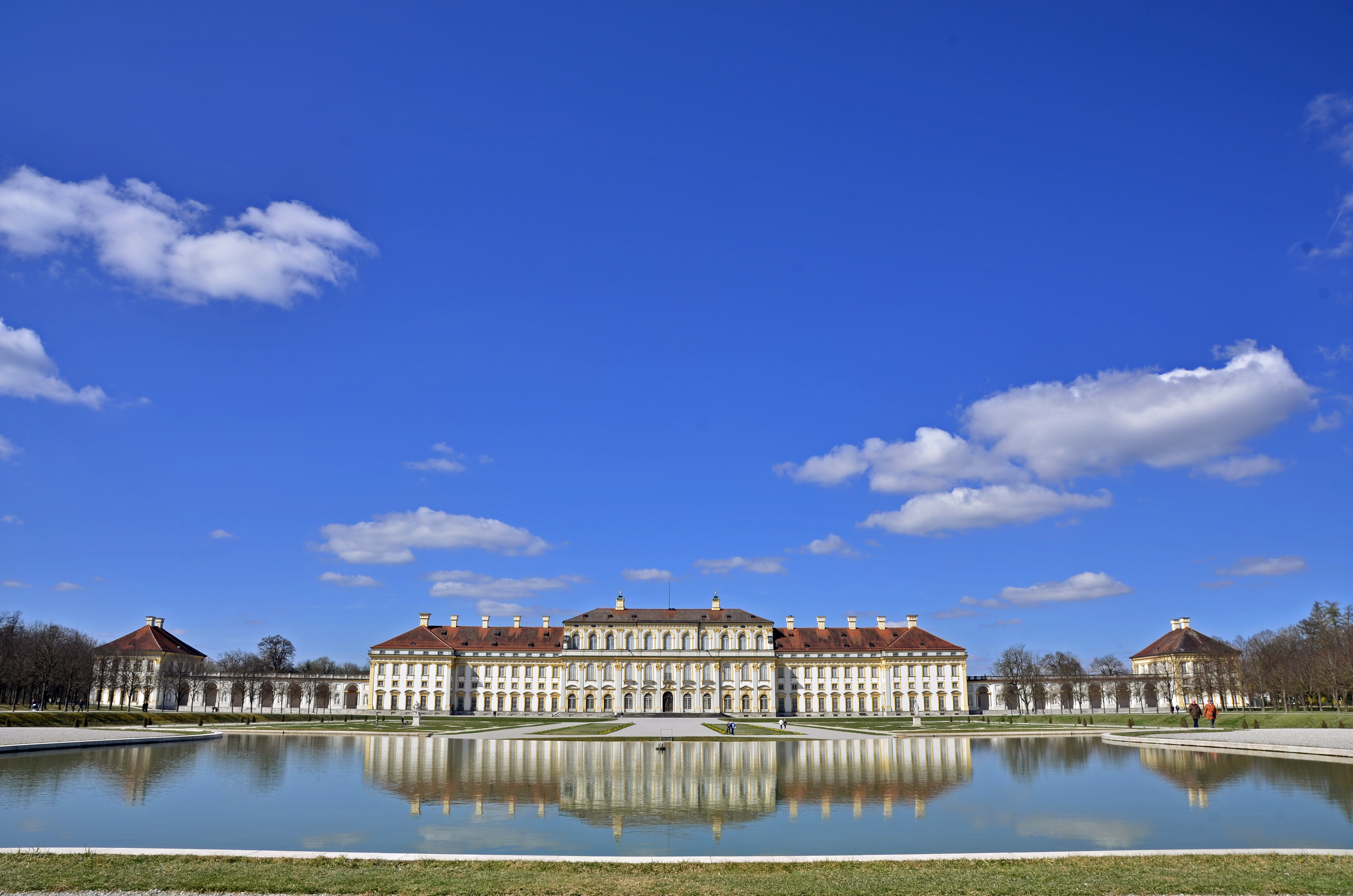 Oberschleissheim Castle, Parkside (View from the East)